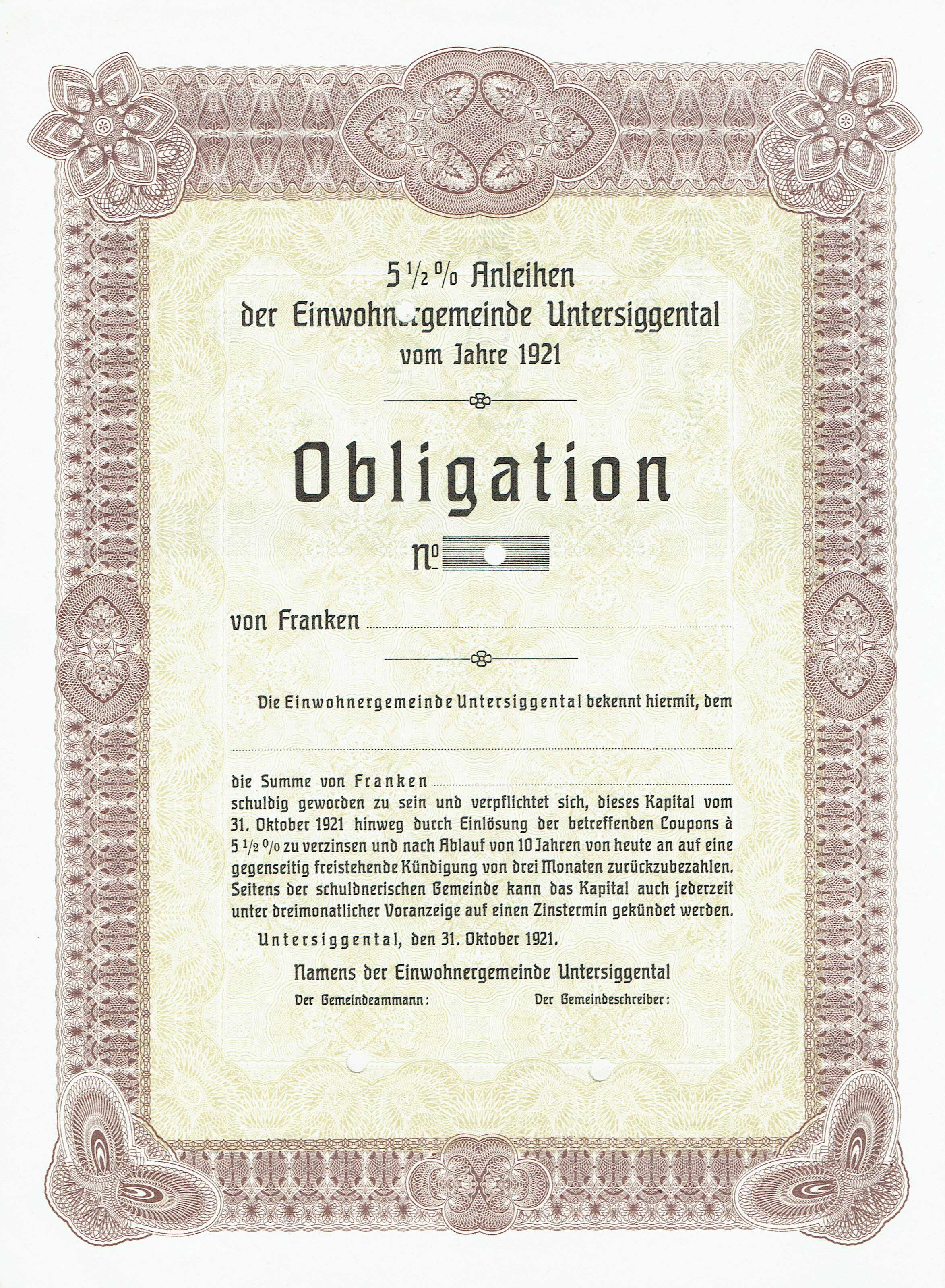 Bond of the Einwohnergemeinde Untersiggenthal, issued 31. December 1921